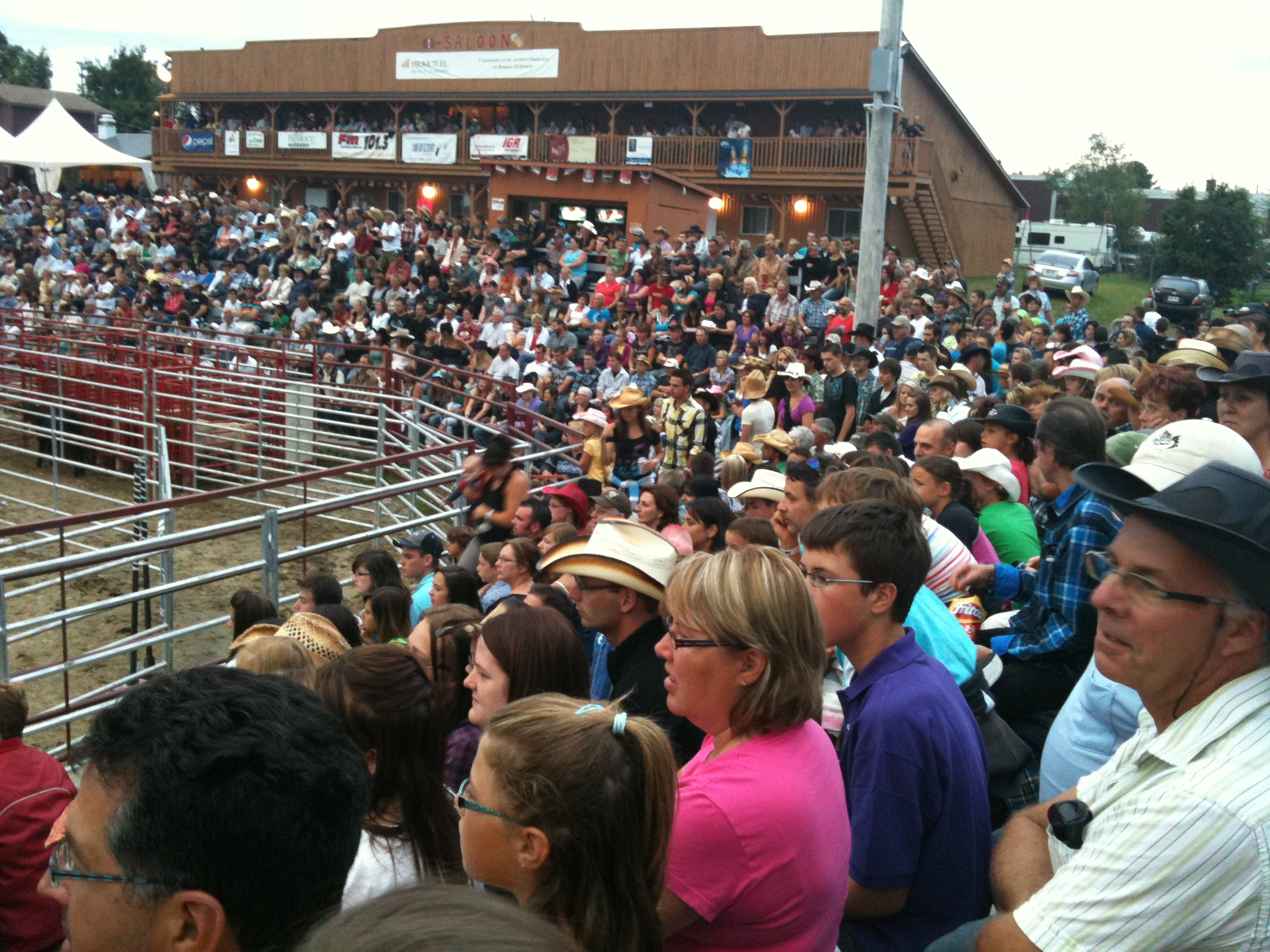 Outdoor view of the Saloon and the rodeo crowd